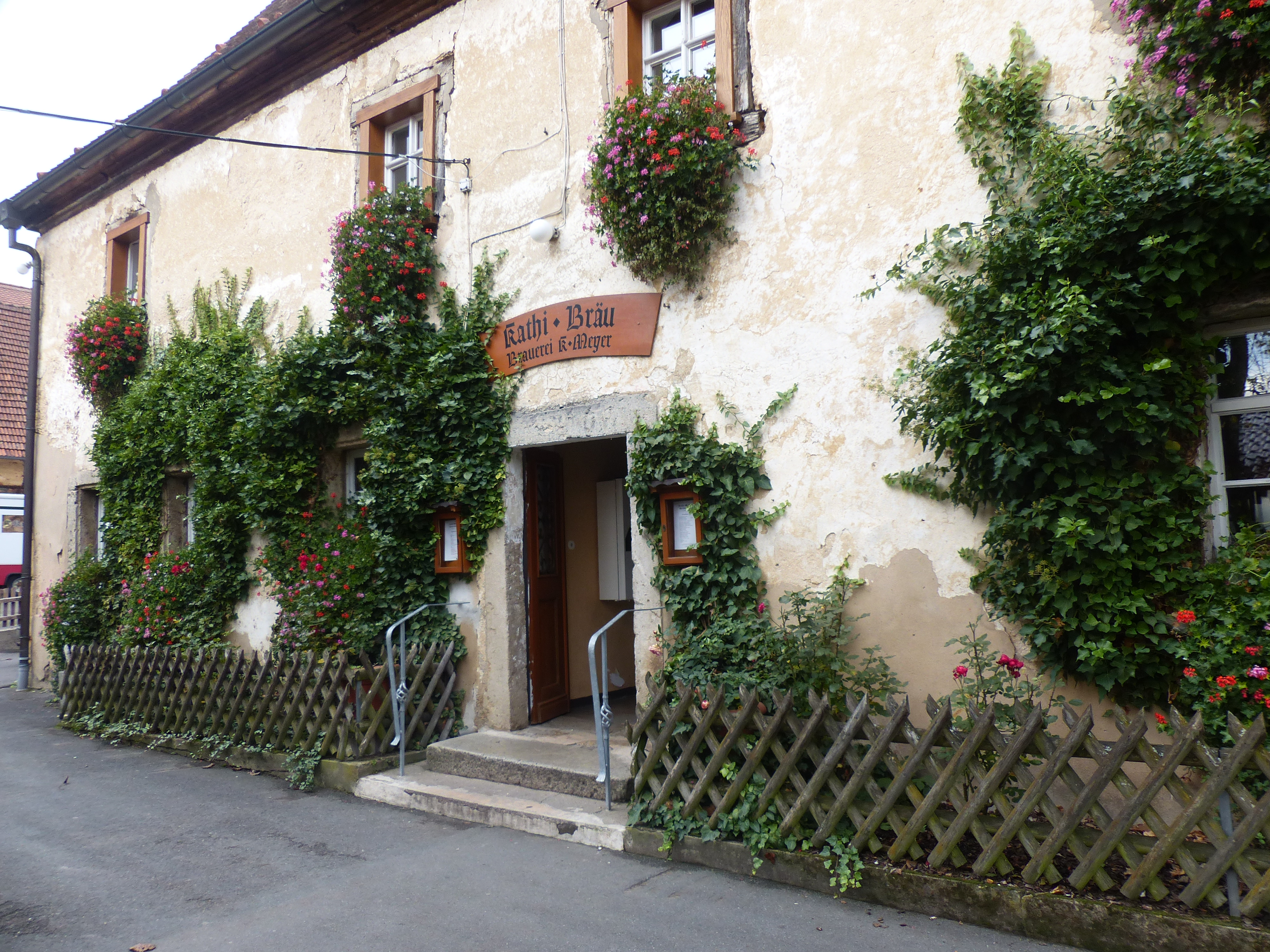 The tied house Kathi-Bräu in Heckenhof, a part of the municipality of Aufseß